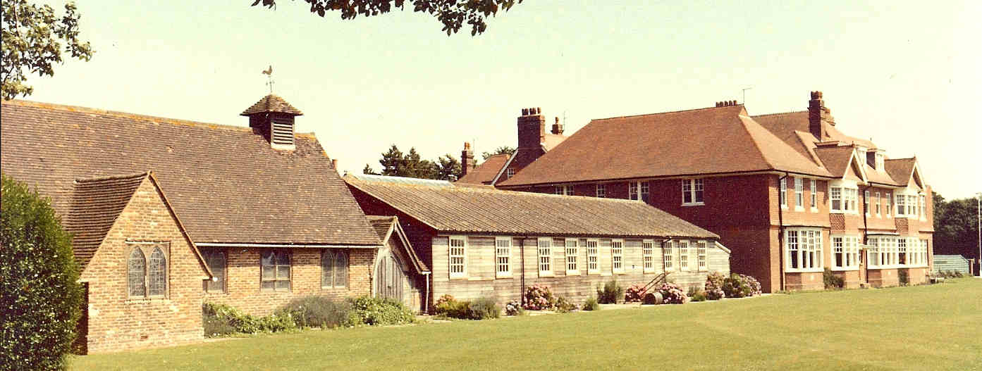 Frontage of St Peter's School - no longer in existance